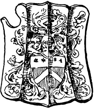 Tournshield with coat of arms/ Sir Thomas Leighton (c.1530–1610), was the Governor of Guernsey and Jersey from 1570 to 1609. Sir Thomas was knighted in 1579 during the reigns of Elizabeth I and James I. He was from Feckenham, Worcestershire, England, born to John Leighton of Watlesburgh and Joyce Sutton of Worcestershire.